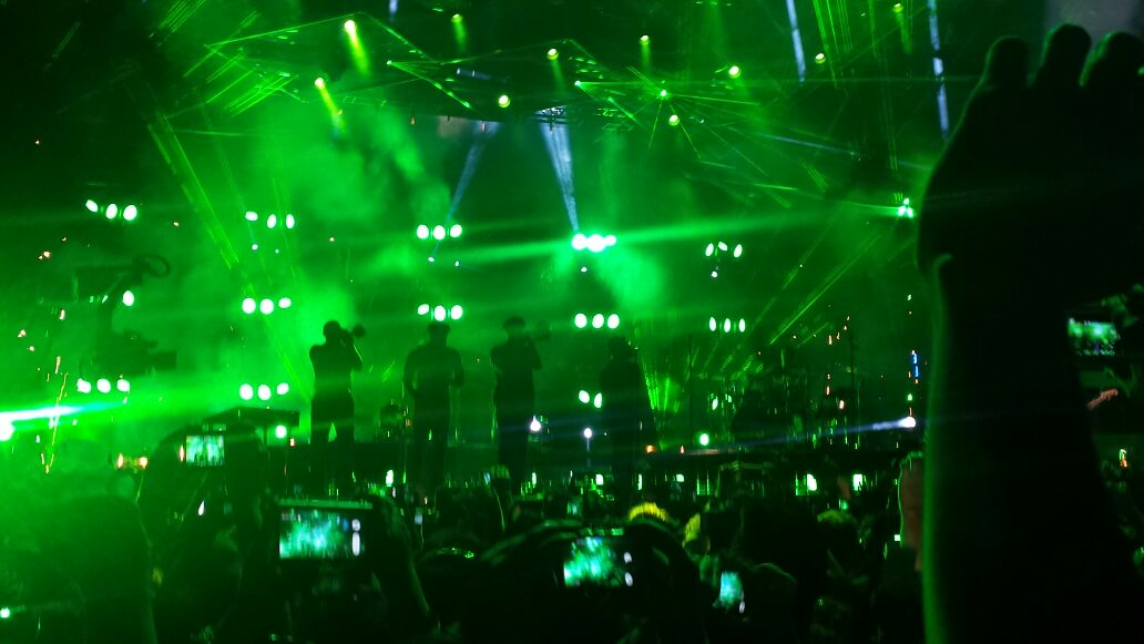 This picture was taken in the Arena Ciudad de Mexico 02/09/2014 in the tour named: "The Moonshine Jungle Tour". We can see Bruno Mars and his crew.